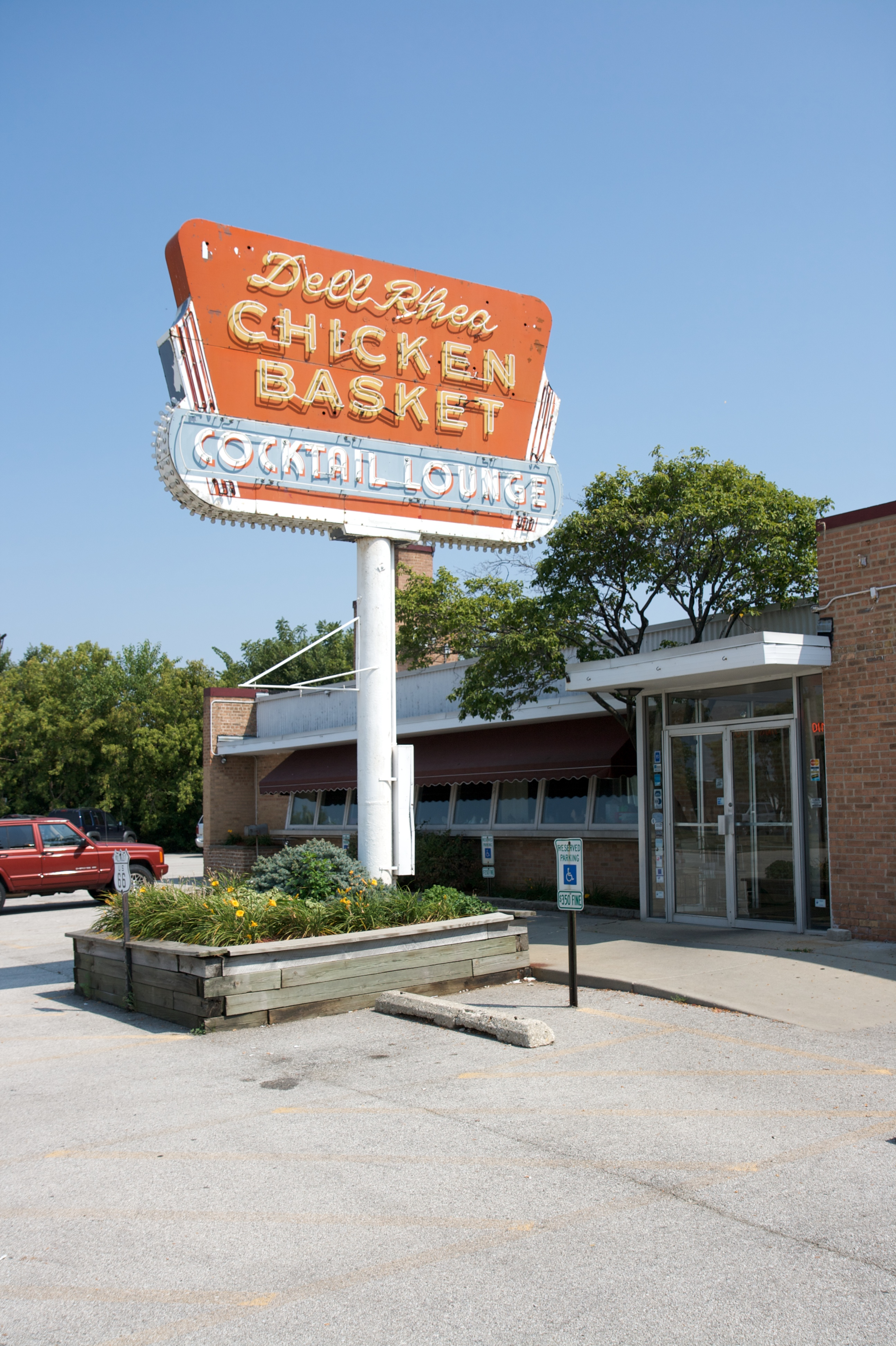 Sign in front of Dell Rhea's Chicken Basket, on historic Route 66 in Willowbrook, Illinois.